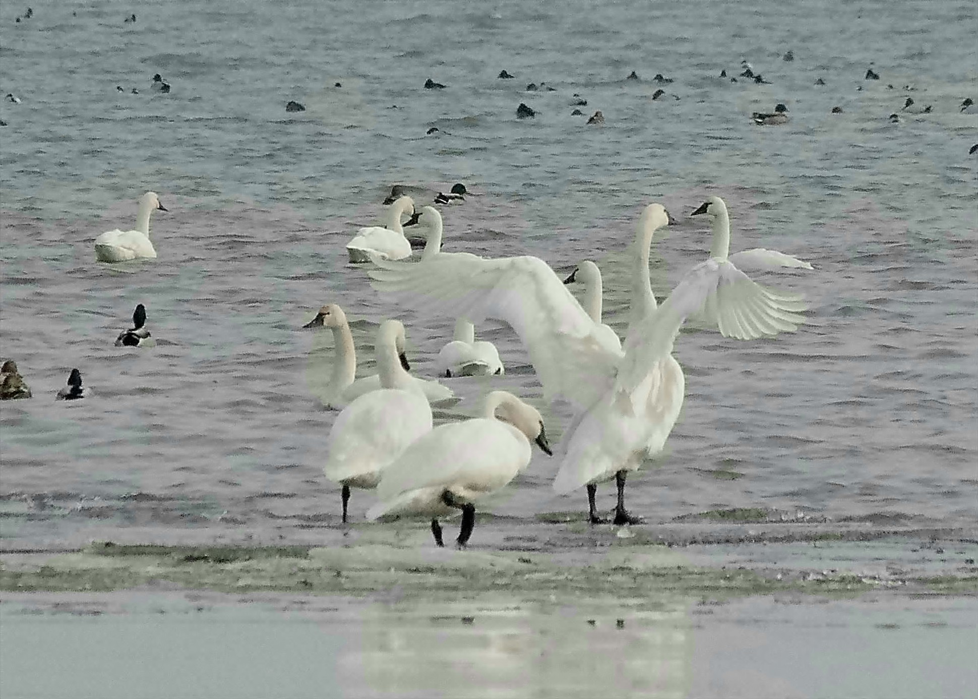 Trumpeter Swans at Lake Erie, Michigan, USA.